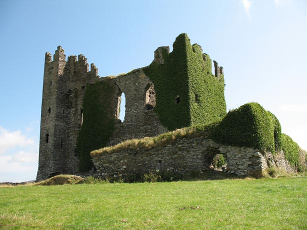 Ballycarbery Castle